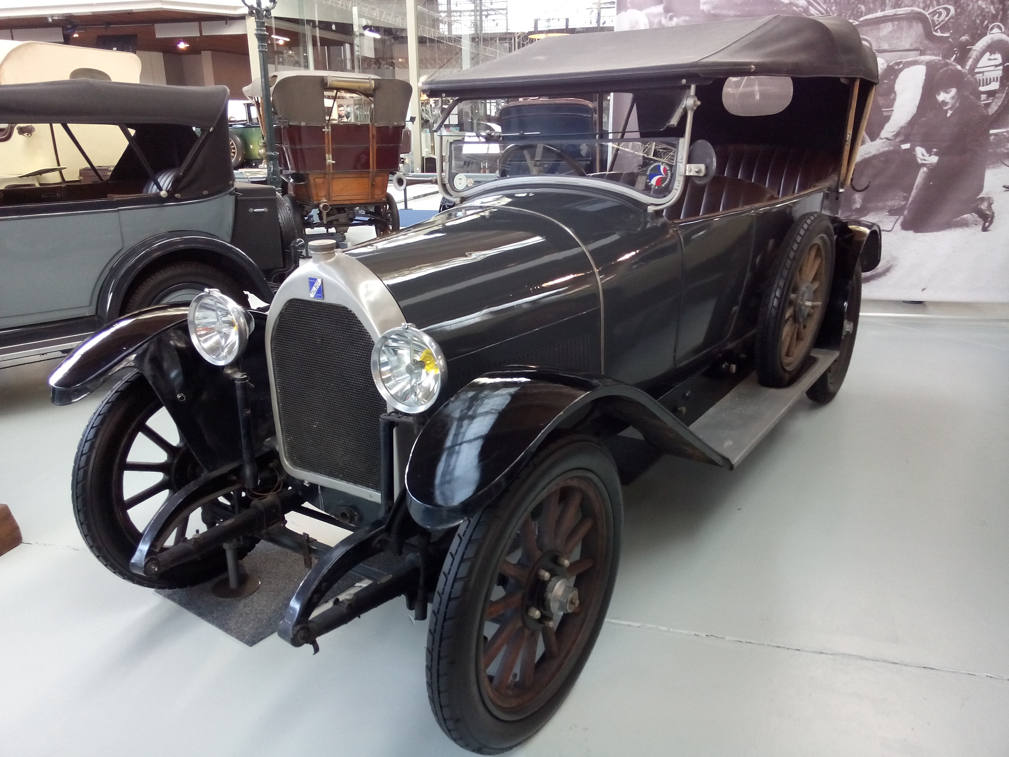 One of the first six cylinders Talbot, announcing a long series of sports cars.